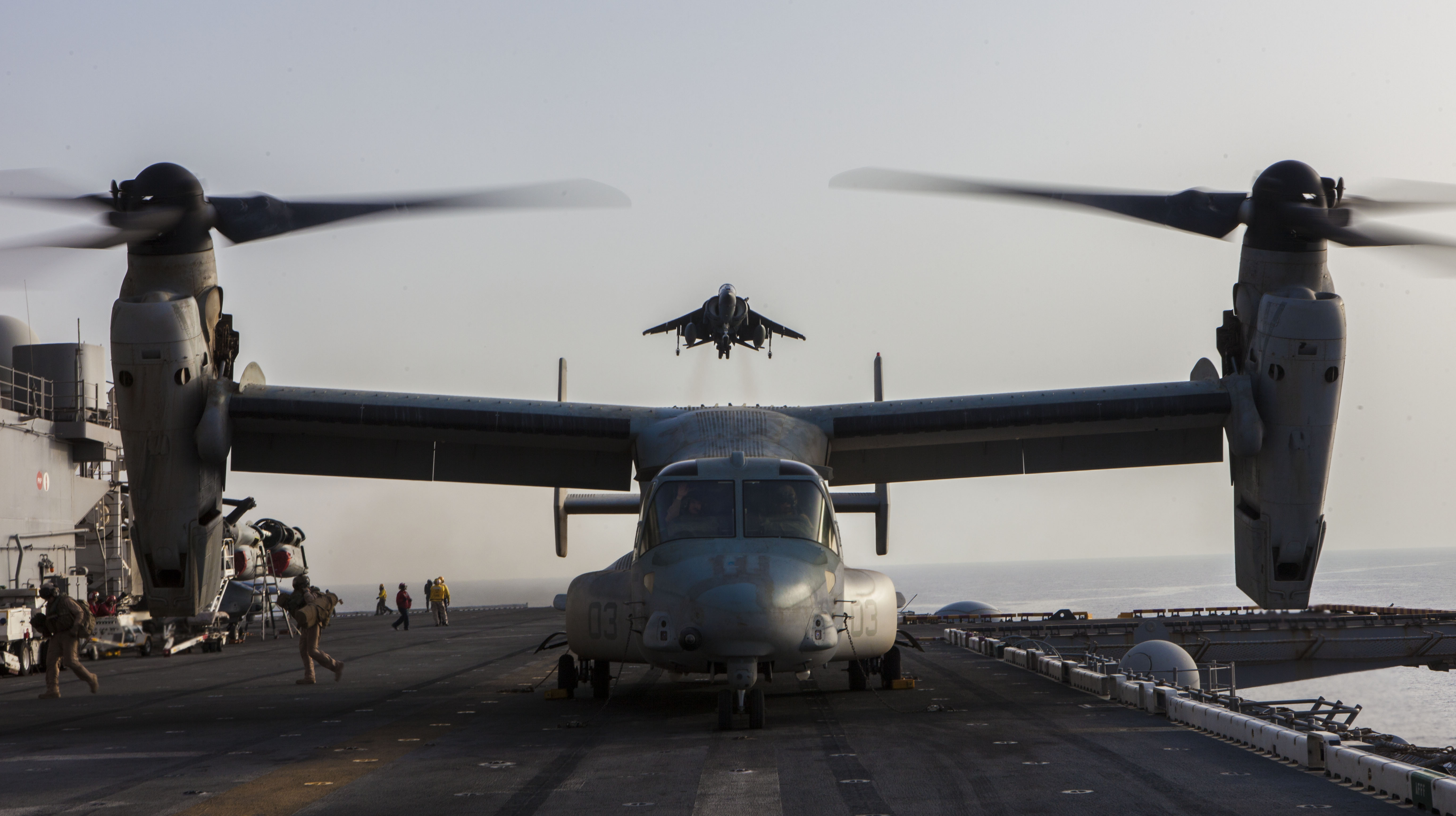 A U.S. Marine Corps AV-8B Harrier aircraft, above, assigned to Marine Medium Tiltrotor Squadron (VMM) 266 approaches the flight deck of the amphibious assault ship USS Kearsarge (LHD 3) as an MV-22B Osprey tiltrotor aircraft, foreground, prepares to take off May 27, 2013, in the U.S. 5th Fleet area of responsibility.